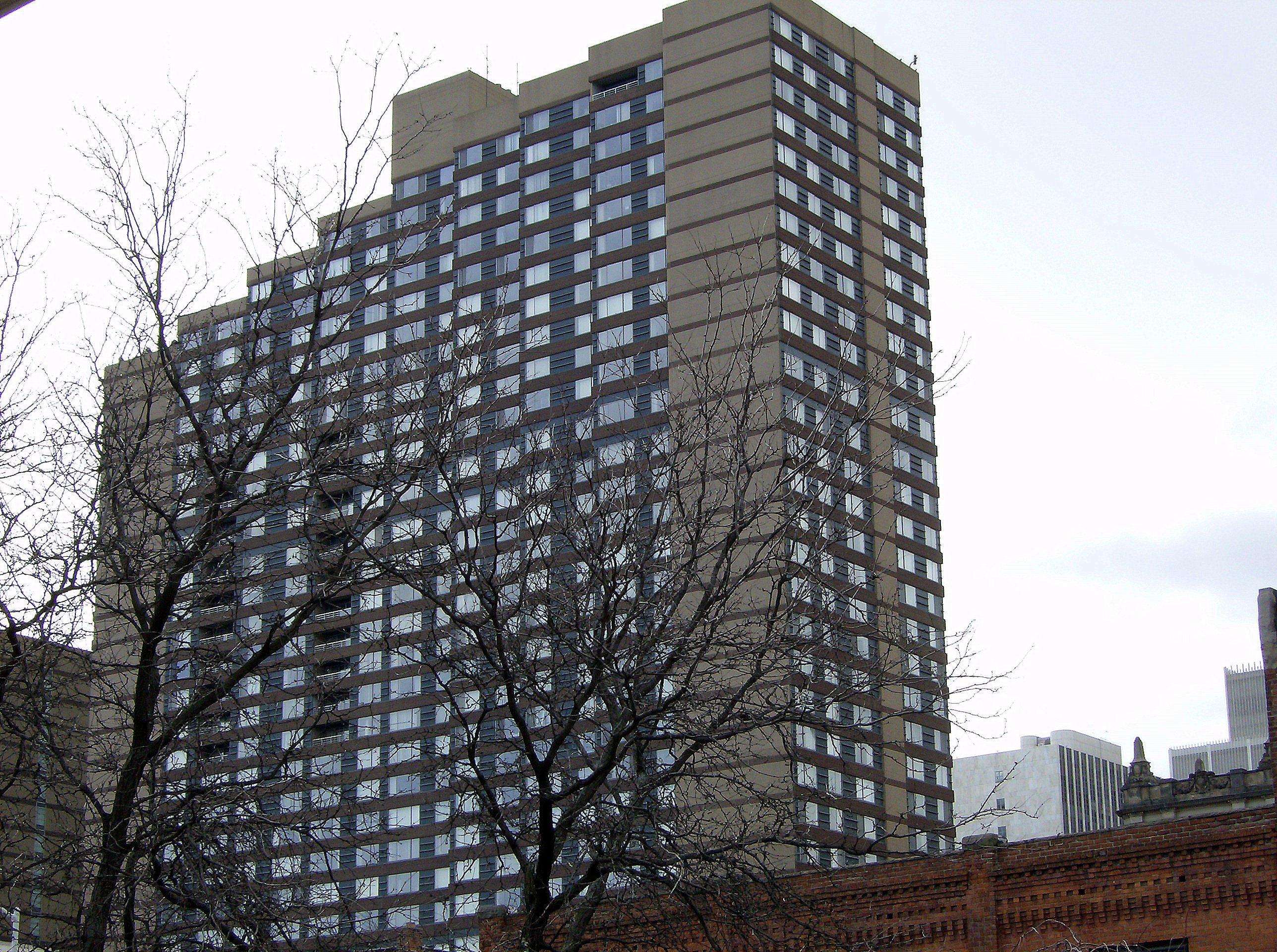 self made